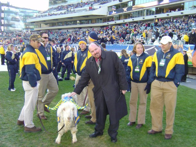 US Navy mascot Bill the Goat